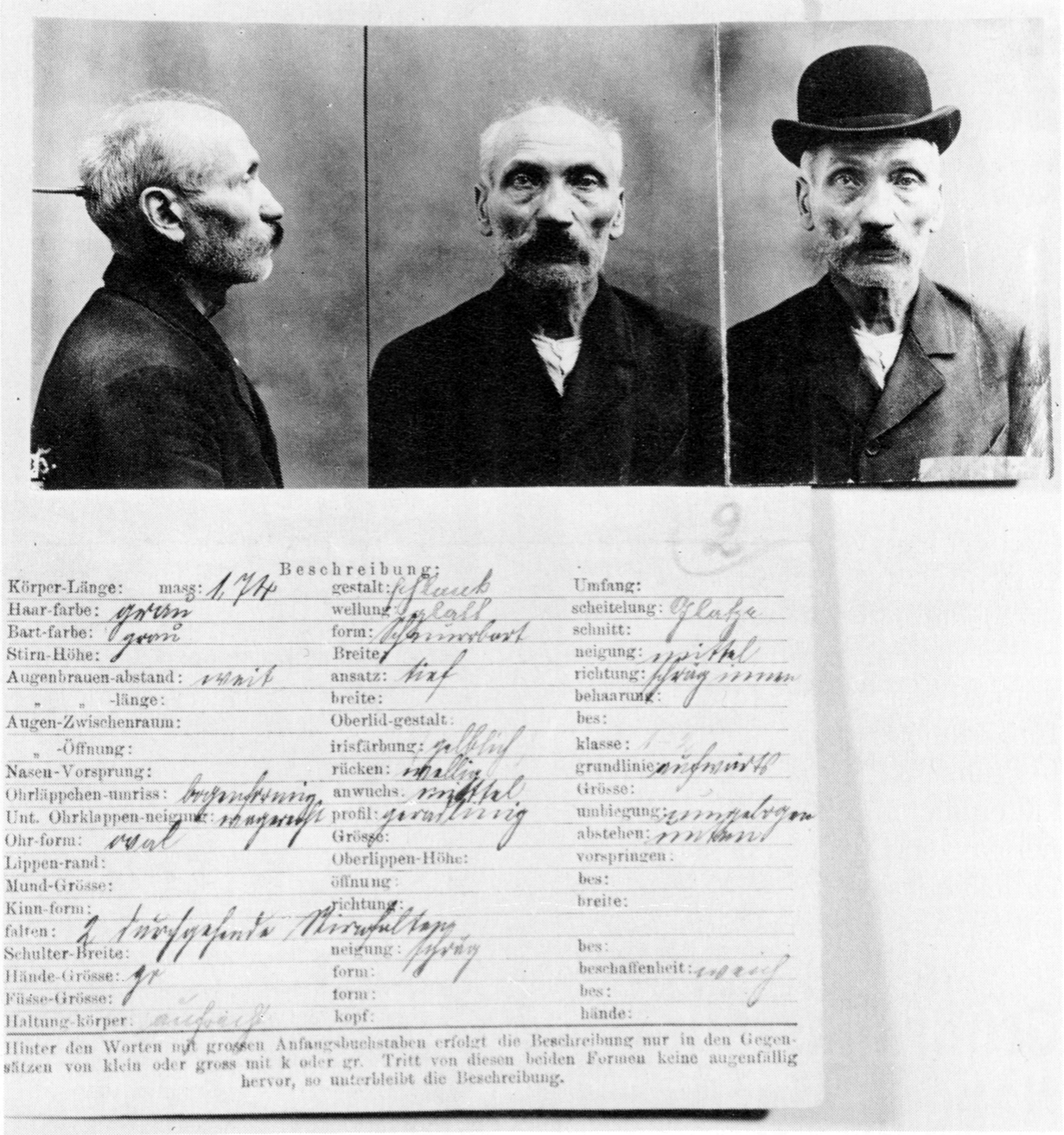 Wilhelm Friedrich Voigt's personal description on the prision file.